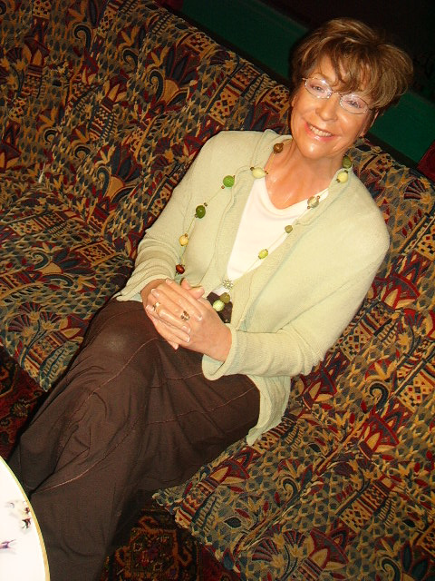 Deirdre Barlow sitting in the Rovers Return in Madame Tussauds, Blackpool